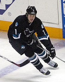 Mark Bell, San Jose Sharks (2006-07)